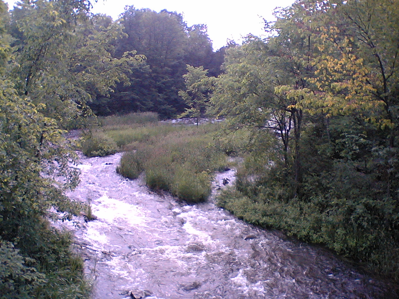 Scouting the Mill of Kintail, Ontario as a wedding site for my cousin.